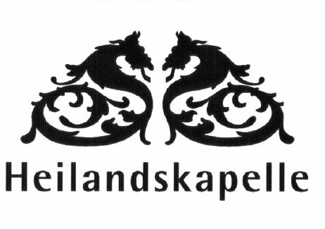 Symbol of the Supporting Club "Heilandskapelle"